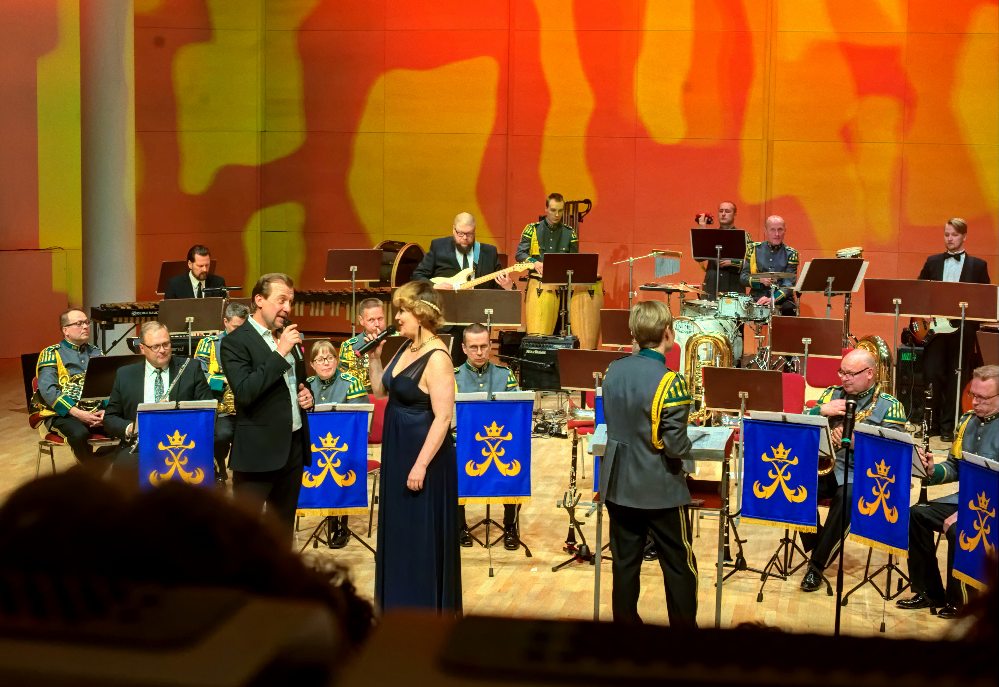 The Dragoon Band (Rakuunasoittokunta) in Lappeenranta, Finland.